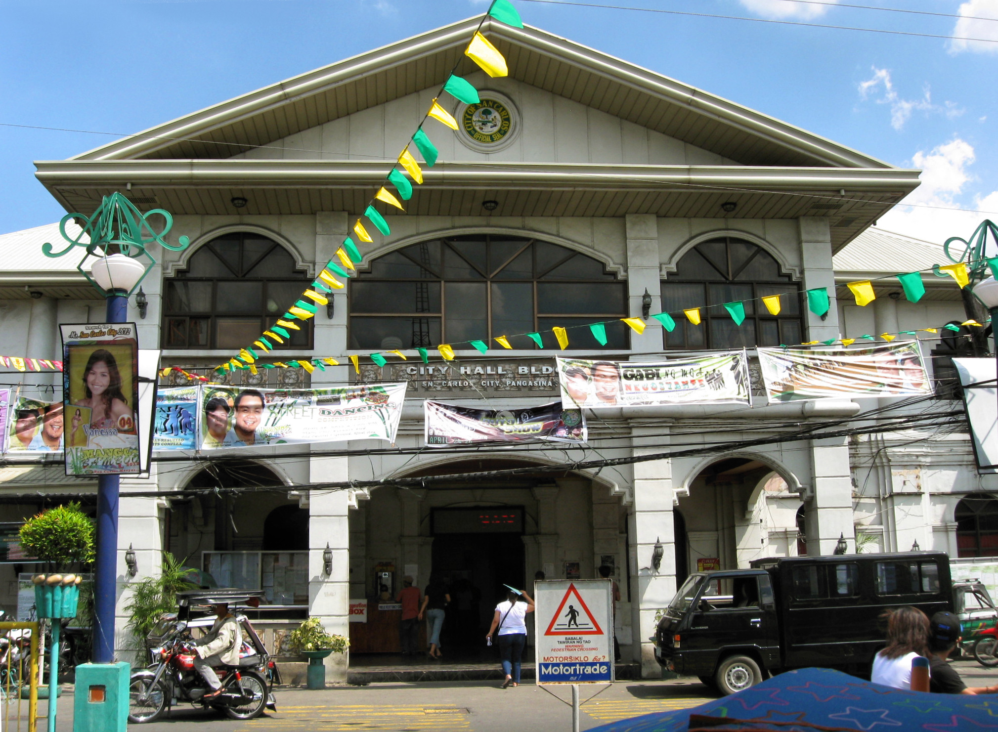 Town Hall of San Carlos, Pangasinan, Philippines